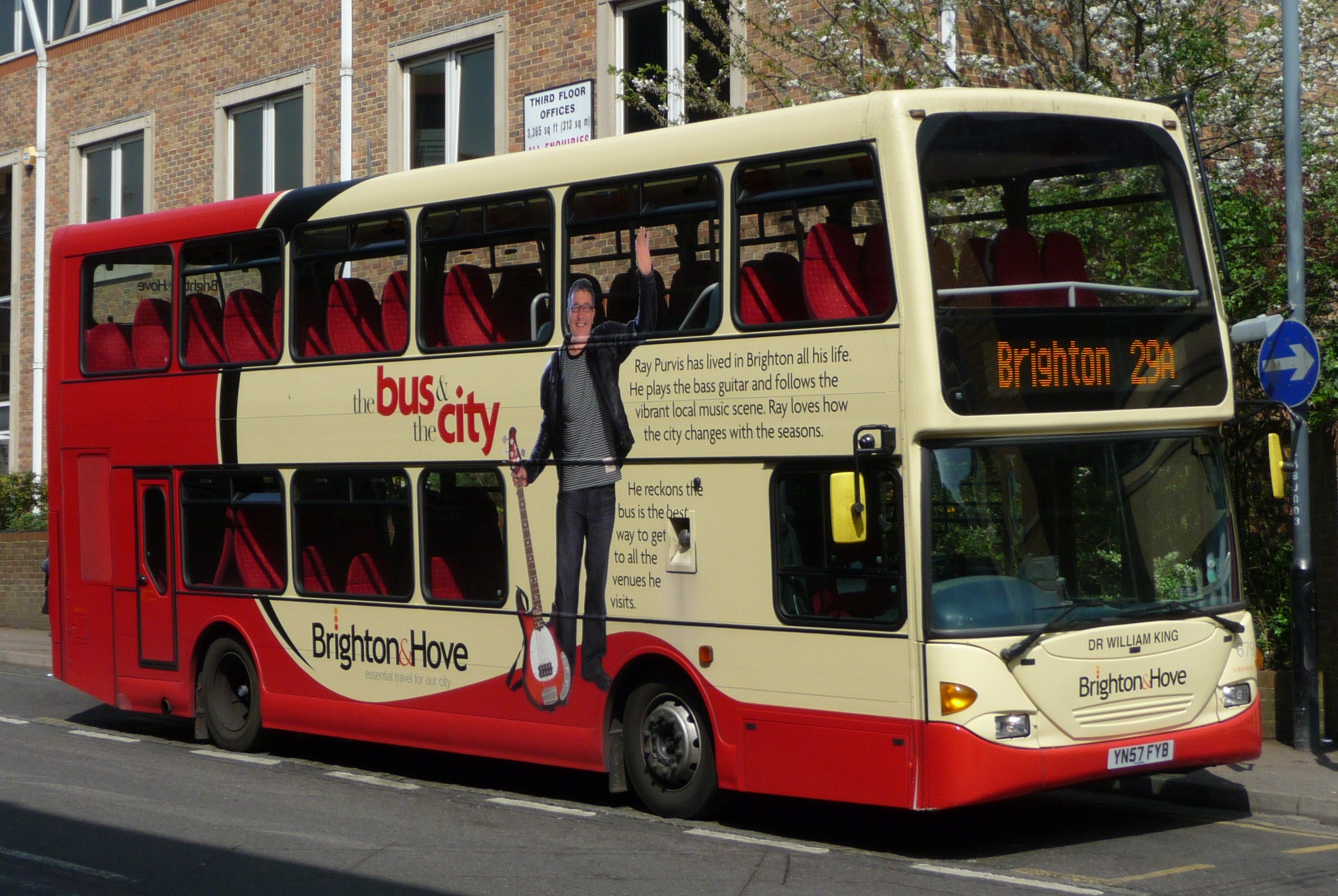 Brighton & Hove 679 Dr William King (YN57 FYB), a Scania N270UD OmniDekka, in Meadow Road, Tunbridge Wells, on route 29A.